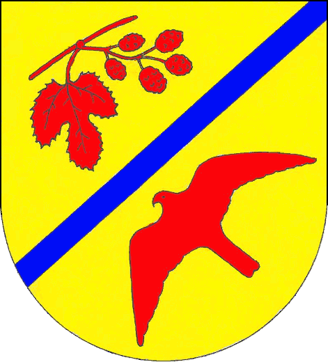 Coat of arms of the municipality Wisch in Schleswig-Holstein, Germany.